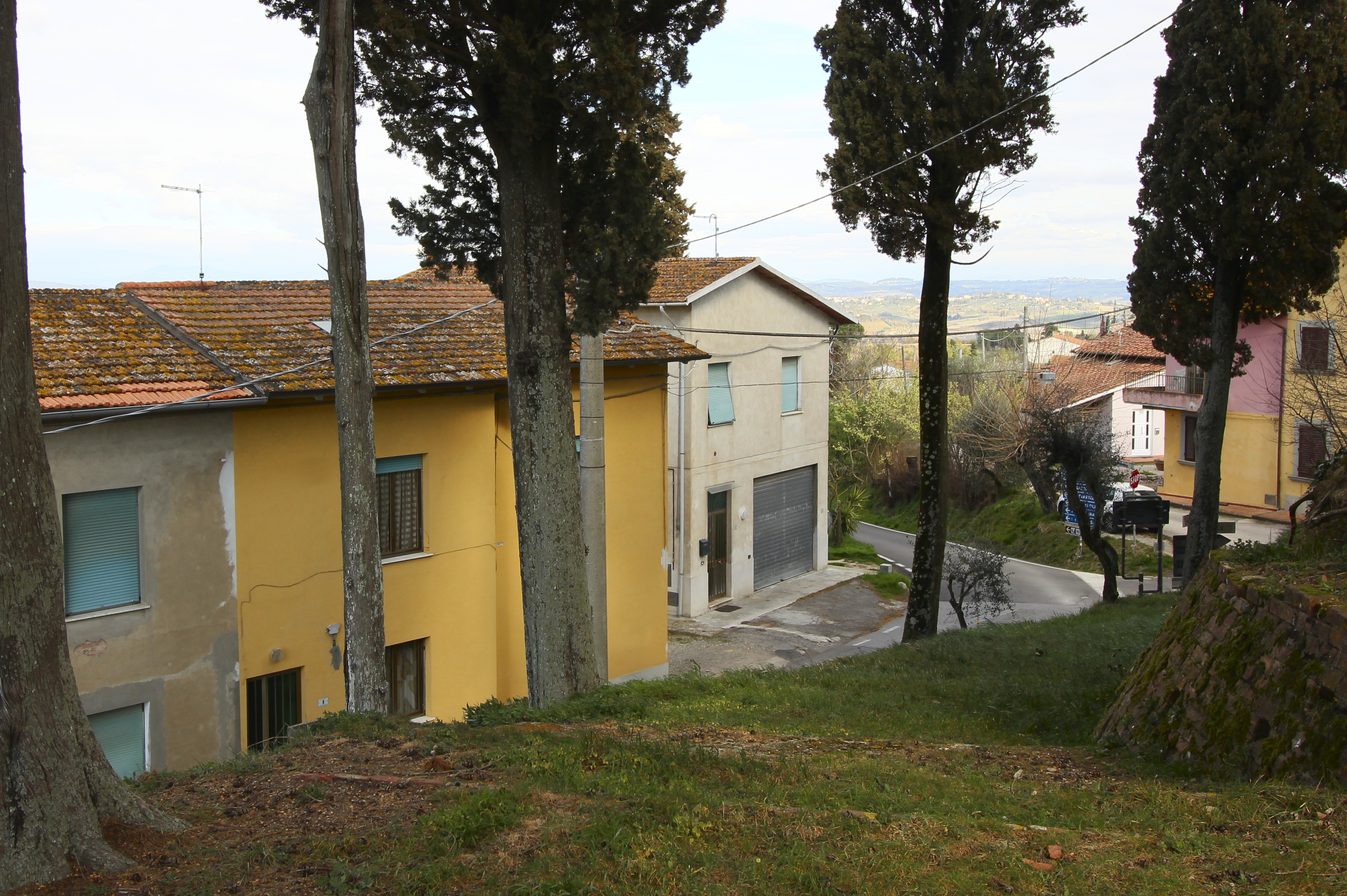 Calenzano, hamlet of San Miniato, Province of Pisa, Tuscany, Italy